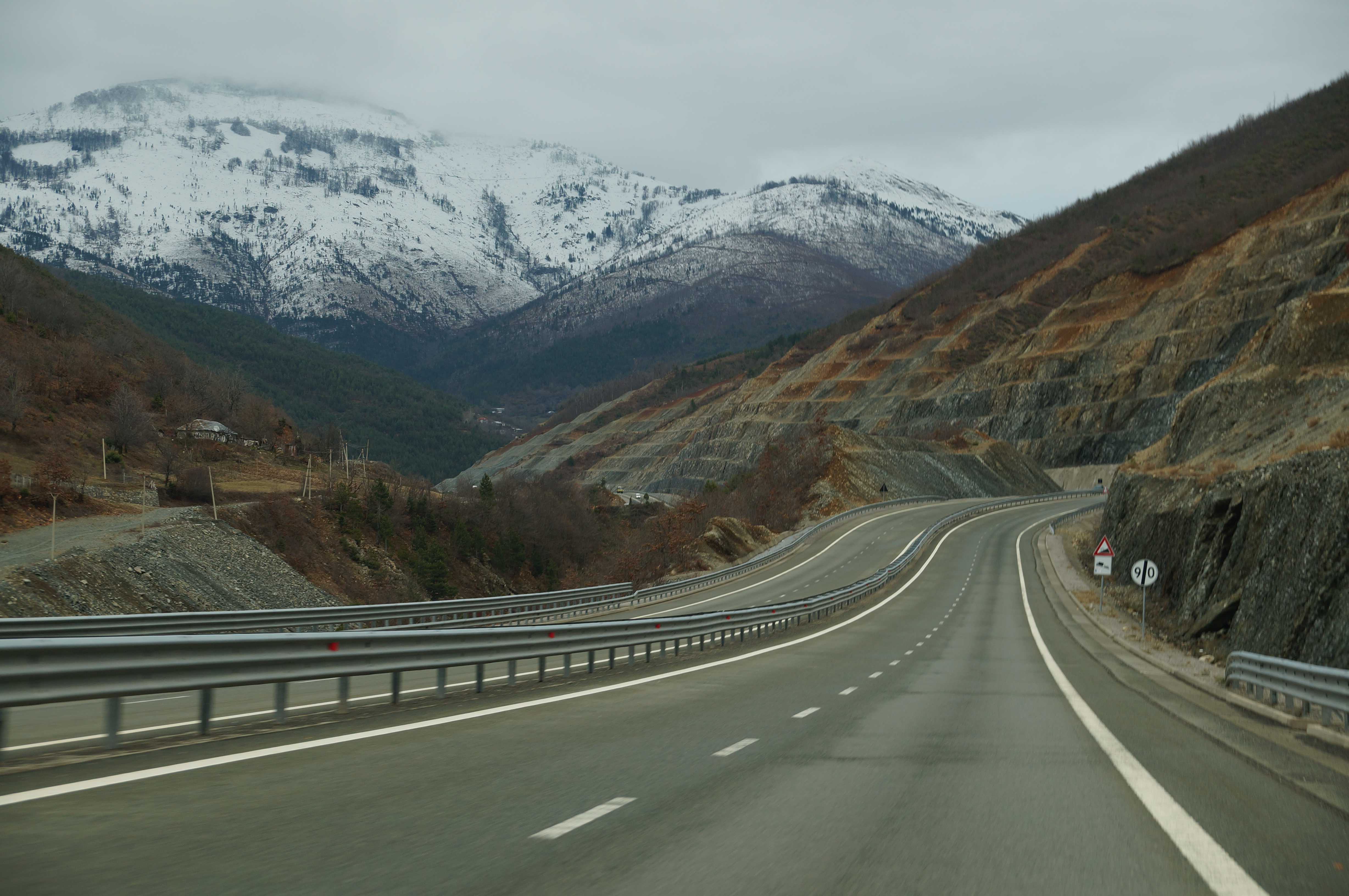 The highway Rruga e Kombit winding through the mountains of Mirdita